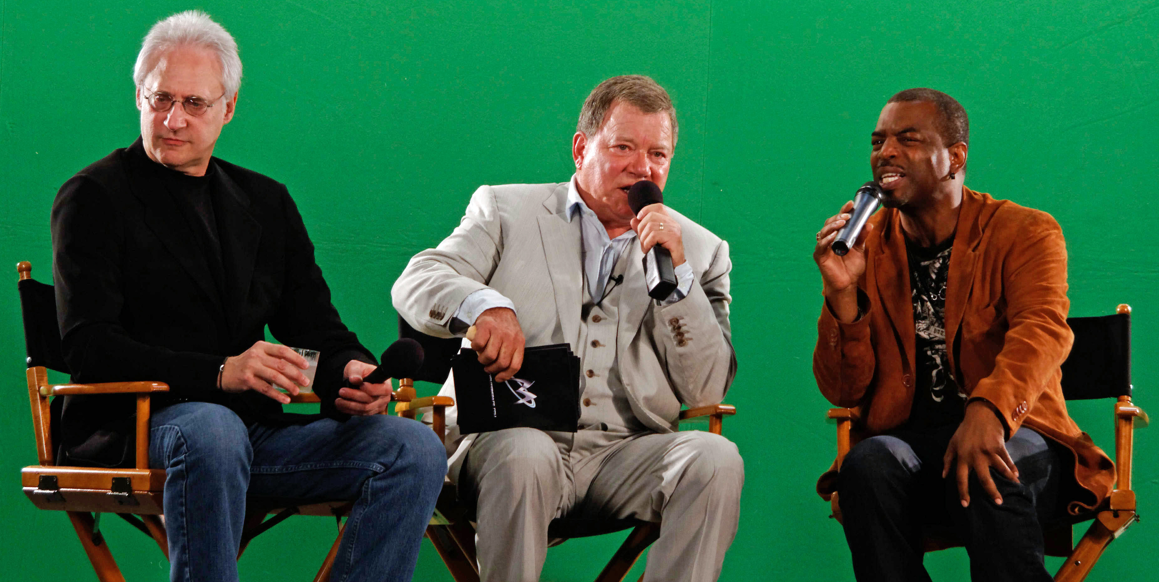 Brent Spiner, William Shatner, and Levar Burton at the Tweet House during Comic-Con in San Diego, California.